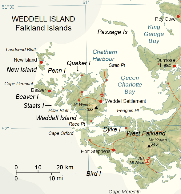 Upgraded topographic map of Weddell Island area, Falkland Islands